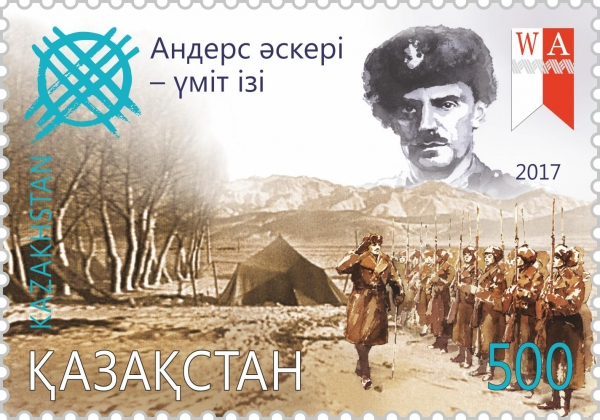 1078. Joint issue of postage stamp of the Republic of Kazakhstan and the Republic of Poland. Anders Army – the Trail of Hope.